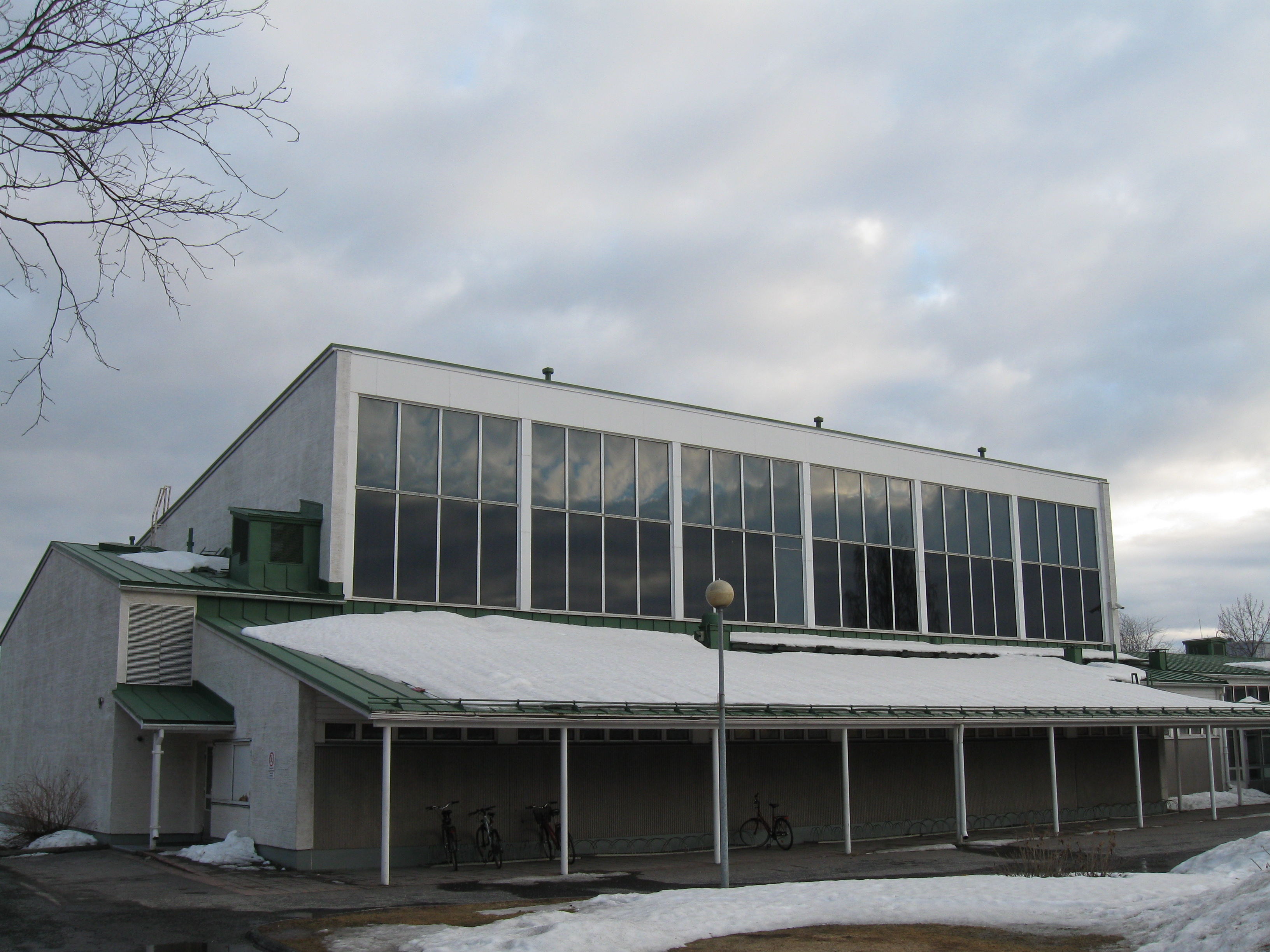 Karjasilta School in Oulu, seen from the front yard.